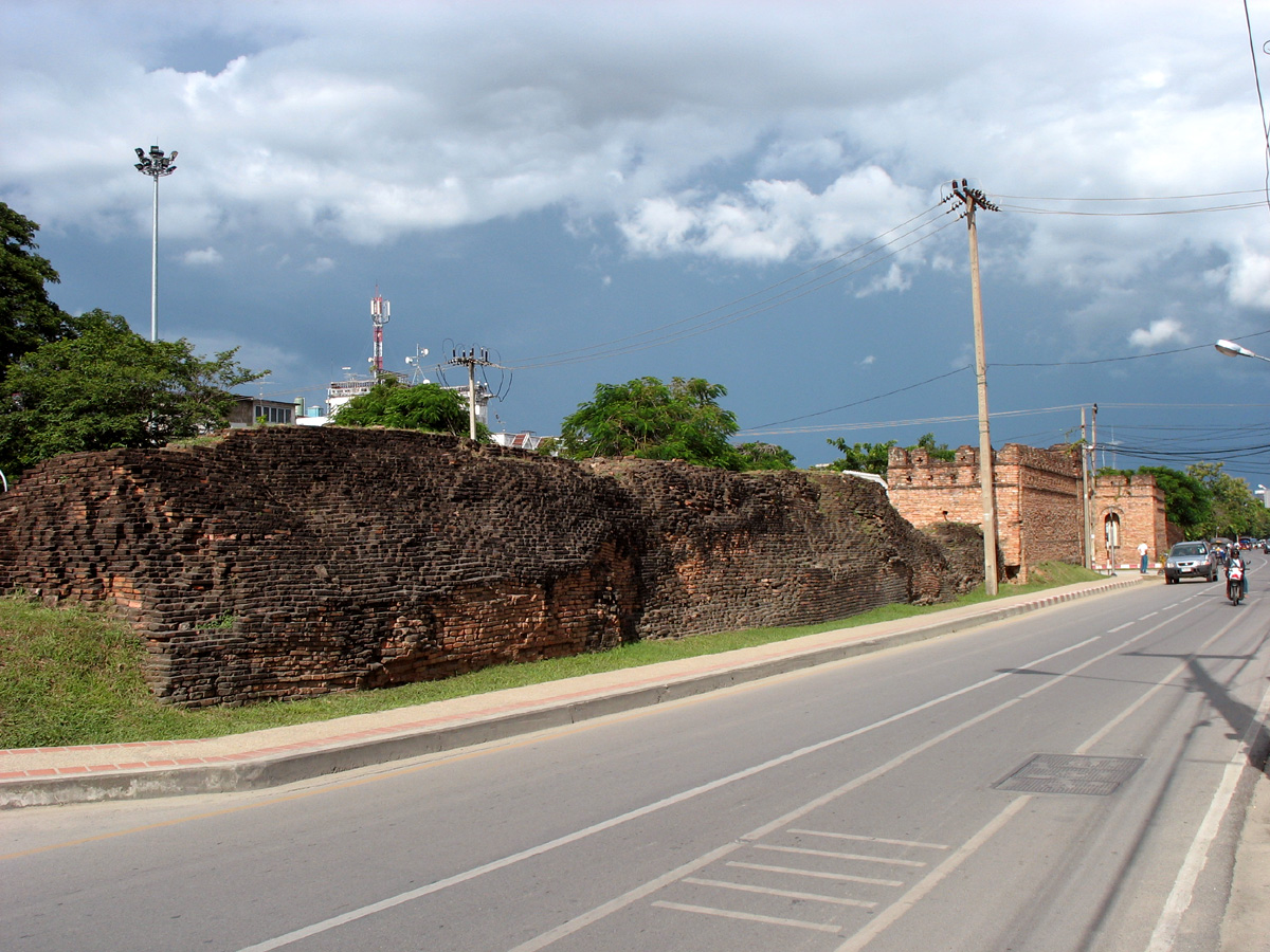 Ancient city wall and Chang Phueak Gate in Chiang Mai